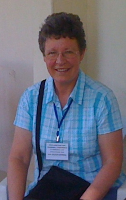 Photo of Joceleyn Bell Burnell